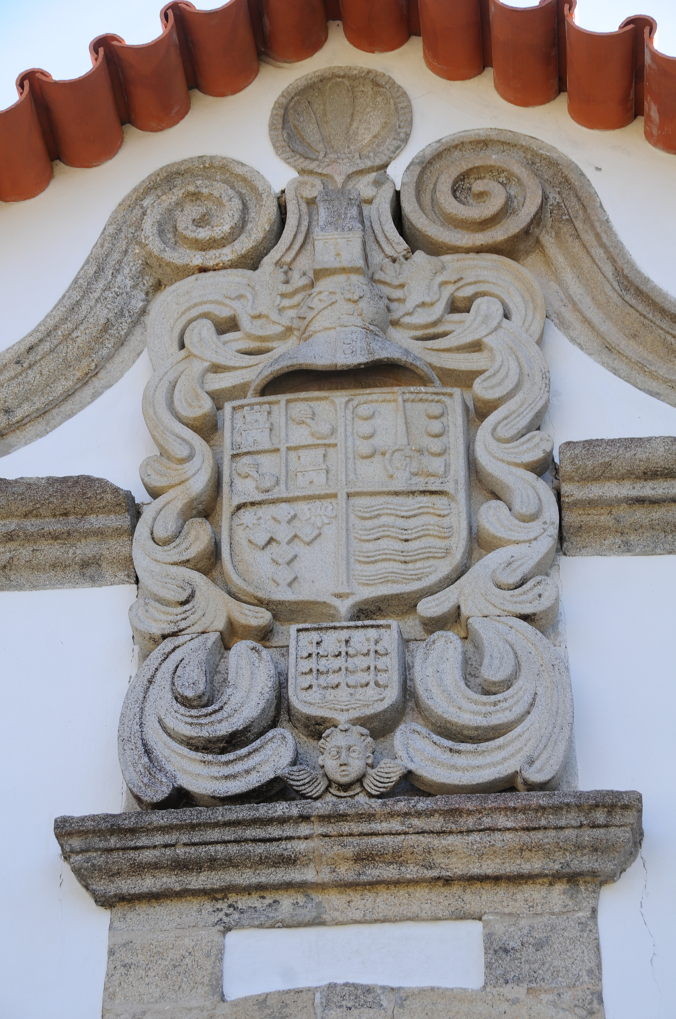 Relief of a coat of arms in Casa das Rodas, Monção, Portugal